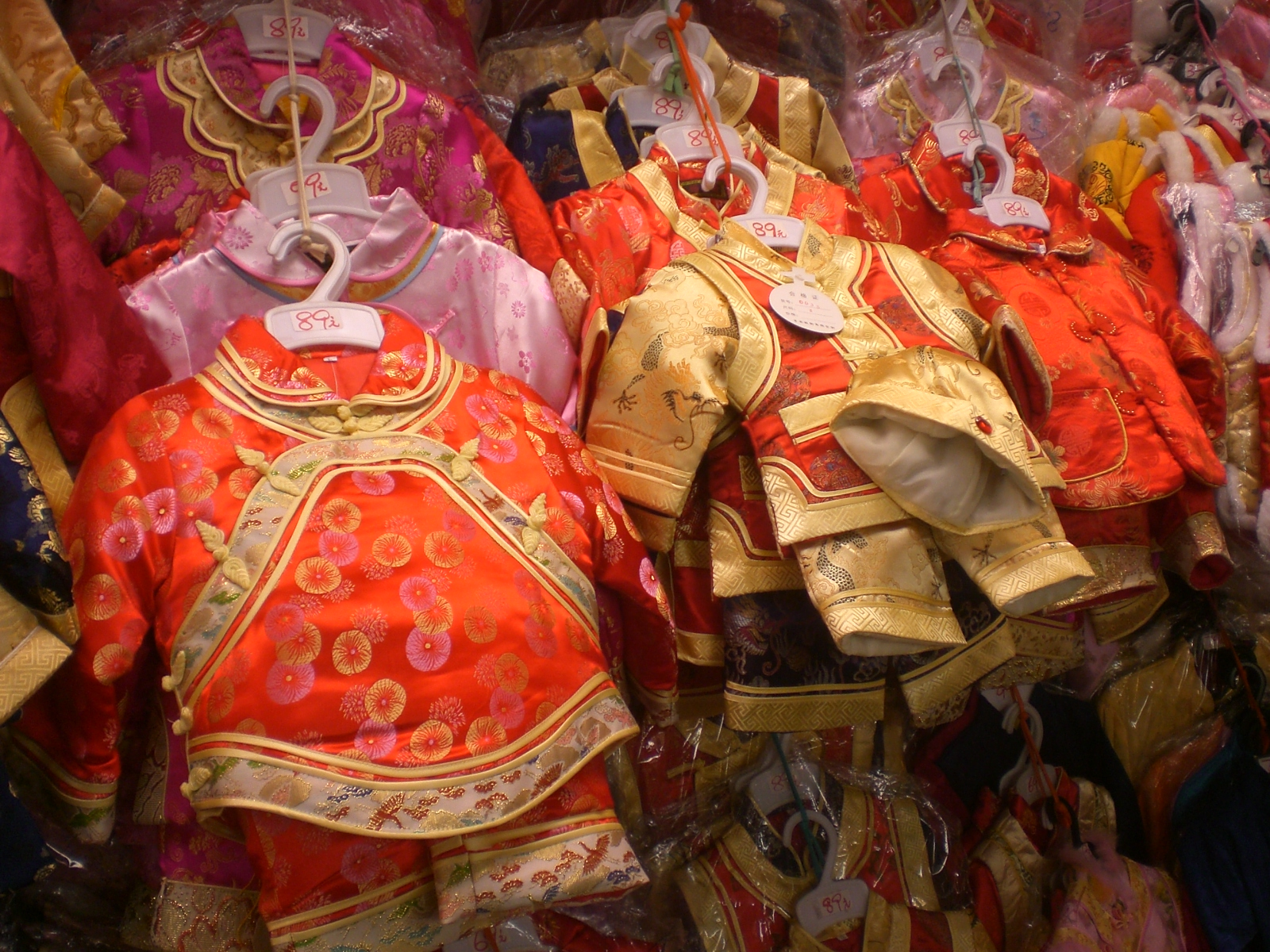 Traditional Chinese clothes for children for Chinese New Year